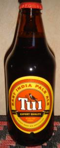 Bottle of Tui Beer from New Zealand.